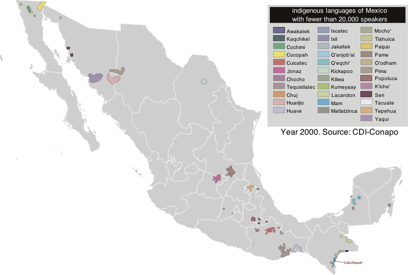 This is an English translation of a map that was originally written in Spanish. It is a map of the indigenous languages of Mexico with fewer than 20,000 speakers.